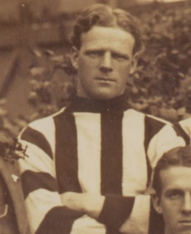 Photograph of Tom Pollard in 1914